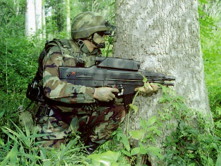 OICW Land Warrior integration test